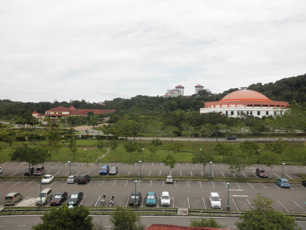 Another view from the School of Engineering & Technology towards the Chancellory and the Chancellor Hall. I don't know why it got cloudy so fast, the sky was so blue when I entered the uni. The slopes on the right is the way up to UMS Peak, the highest point in the campus. ODEC Beach is just over the Chancellory and hill.